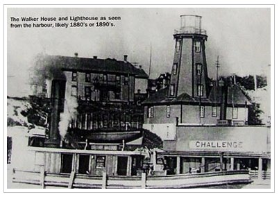 njknkjnkjn